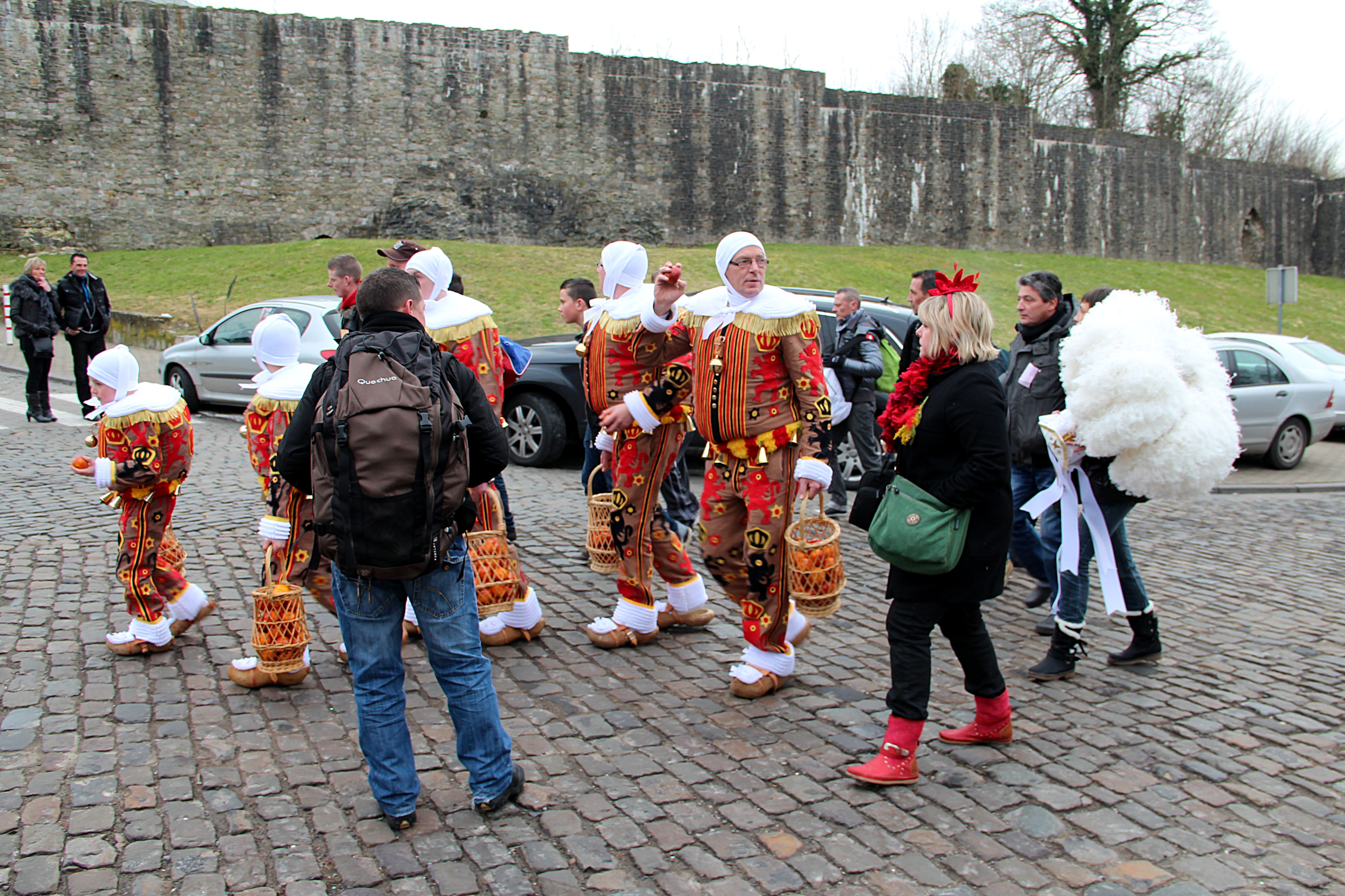 Binche, group of Gilles walking in front of the Bon-Secours fortifications on Shrove Tuesday afternoon.